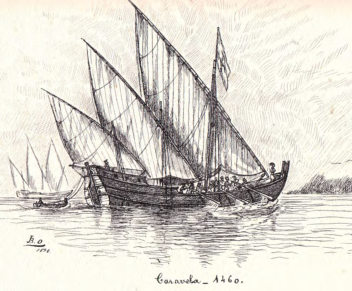 Brás de Oliveira. Caravel with oars